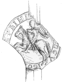 Guigues VII of Viennois seal